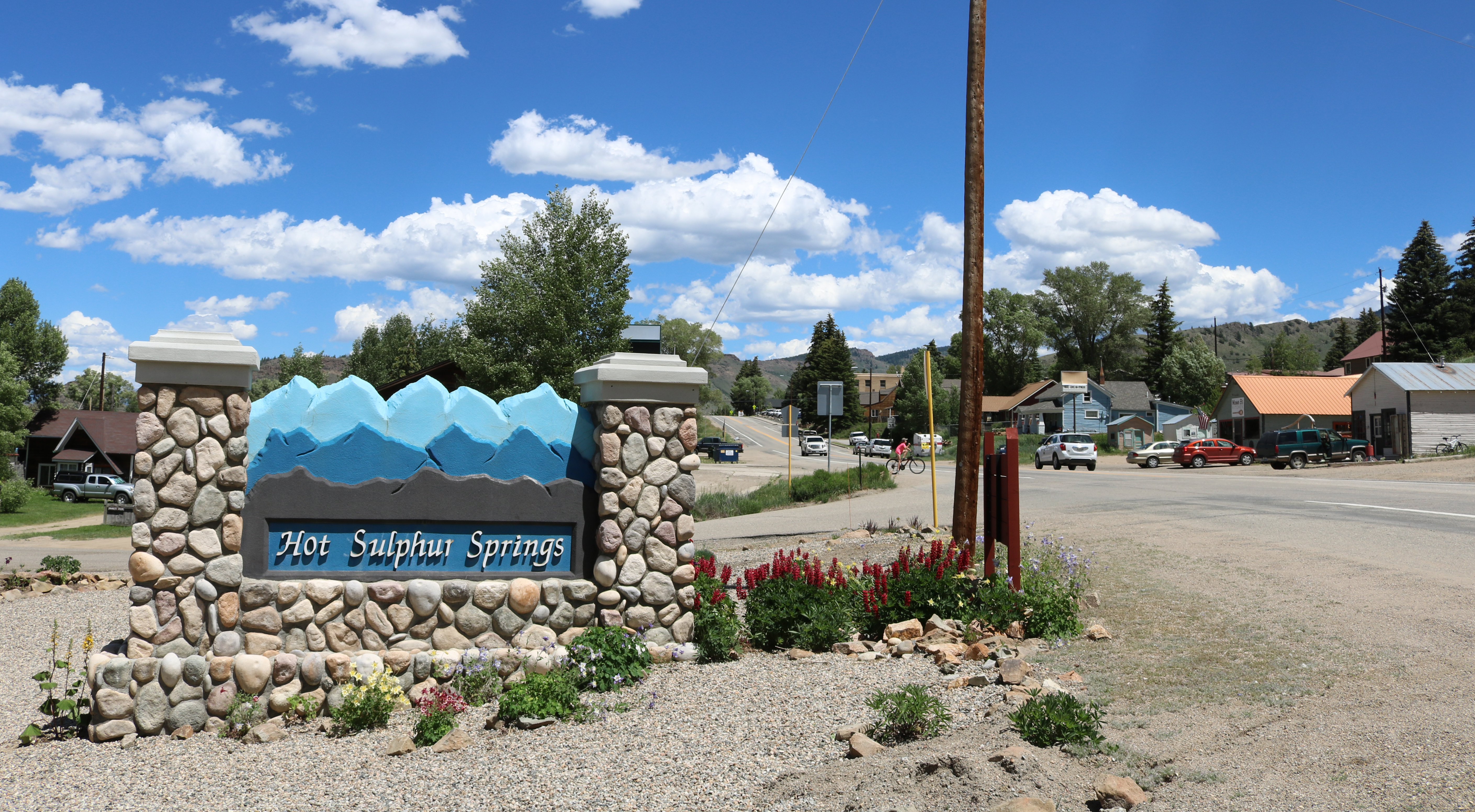 One of the welcome signs for Hot Sulphur Springs, Colorado. The view is looking west along Byers Avenue, which is also U.S. Route 40.